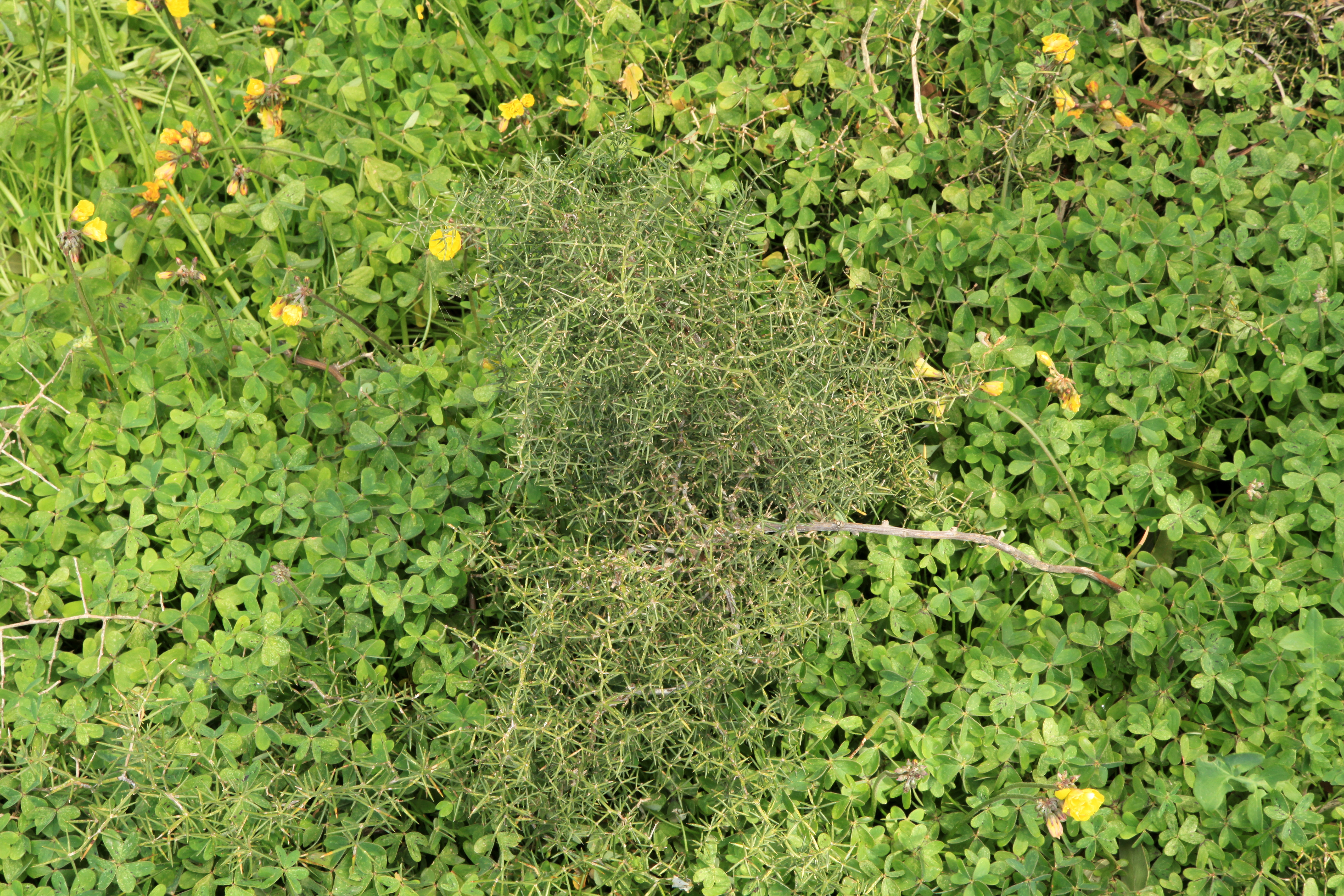 Asparagus aphyllus growing at Triq l-Armier in Mellieħa, Malta